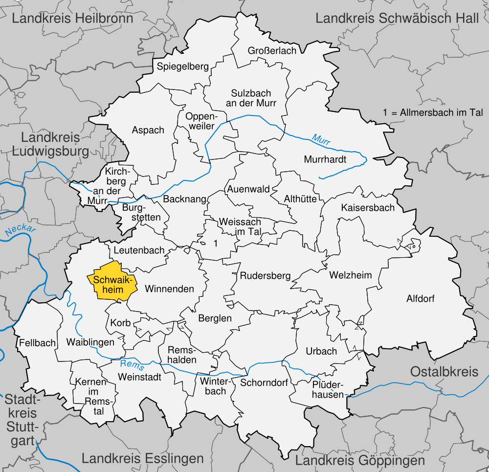 position of Schwaikheim within the Rems-Murr-Kreis, Baden-Württemberg, Germany